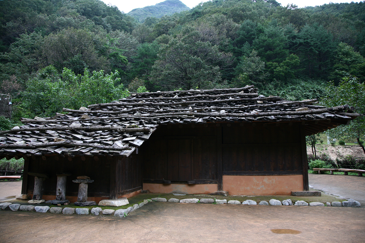 A traditional Korean house in Samcheok, Gangwon-do (Gangwon province), South Korea.